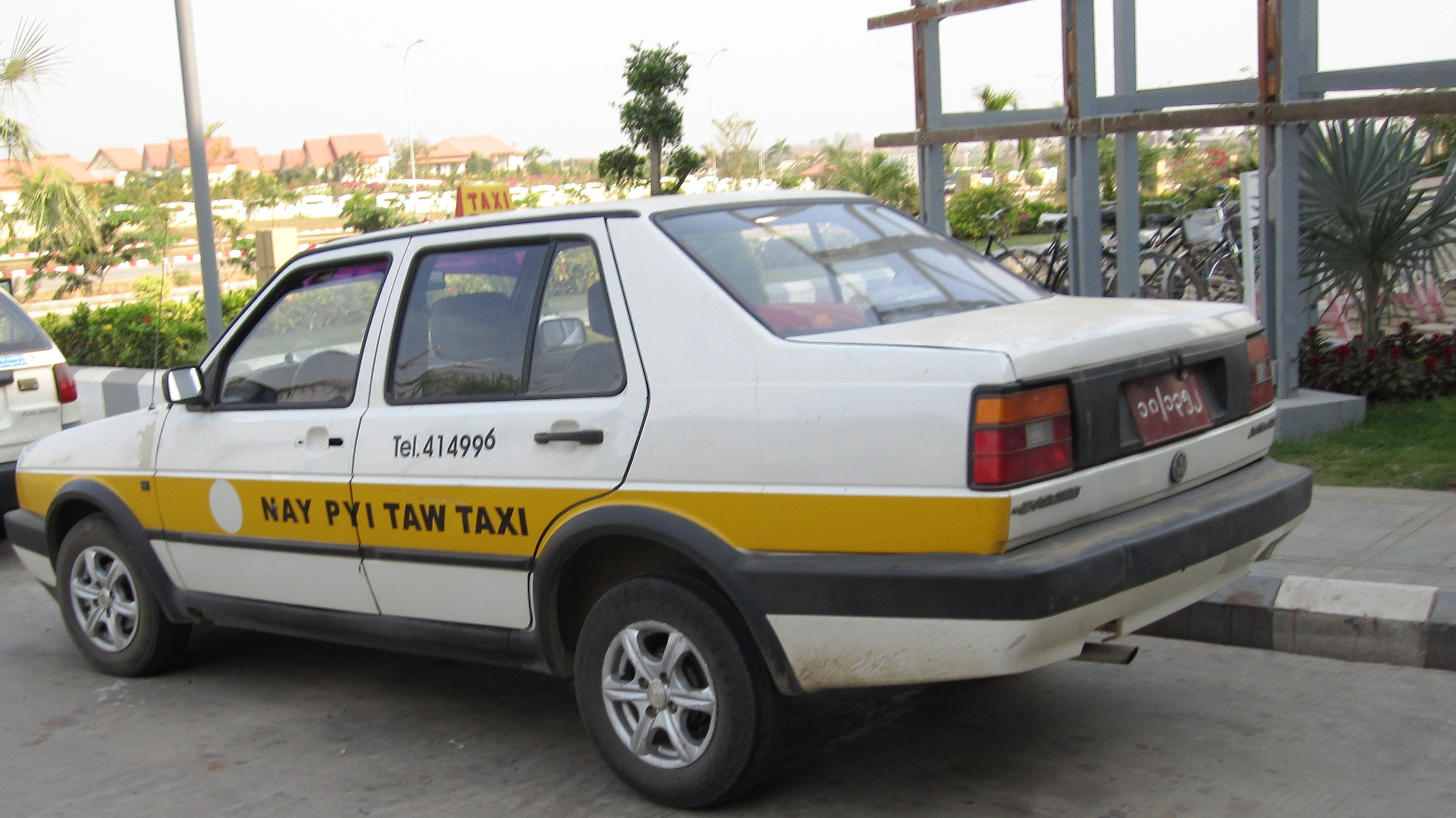 Chinese-built FAW-VW Jetta used as taxi in Naypyidaw, Burma.